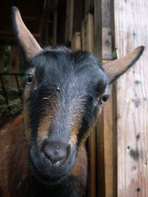 Mini-Oberhasli goaat